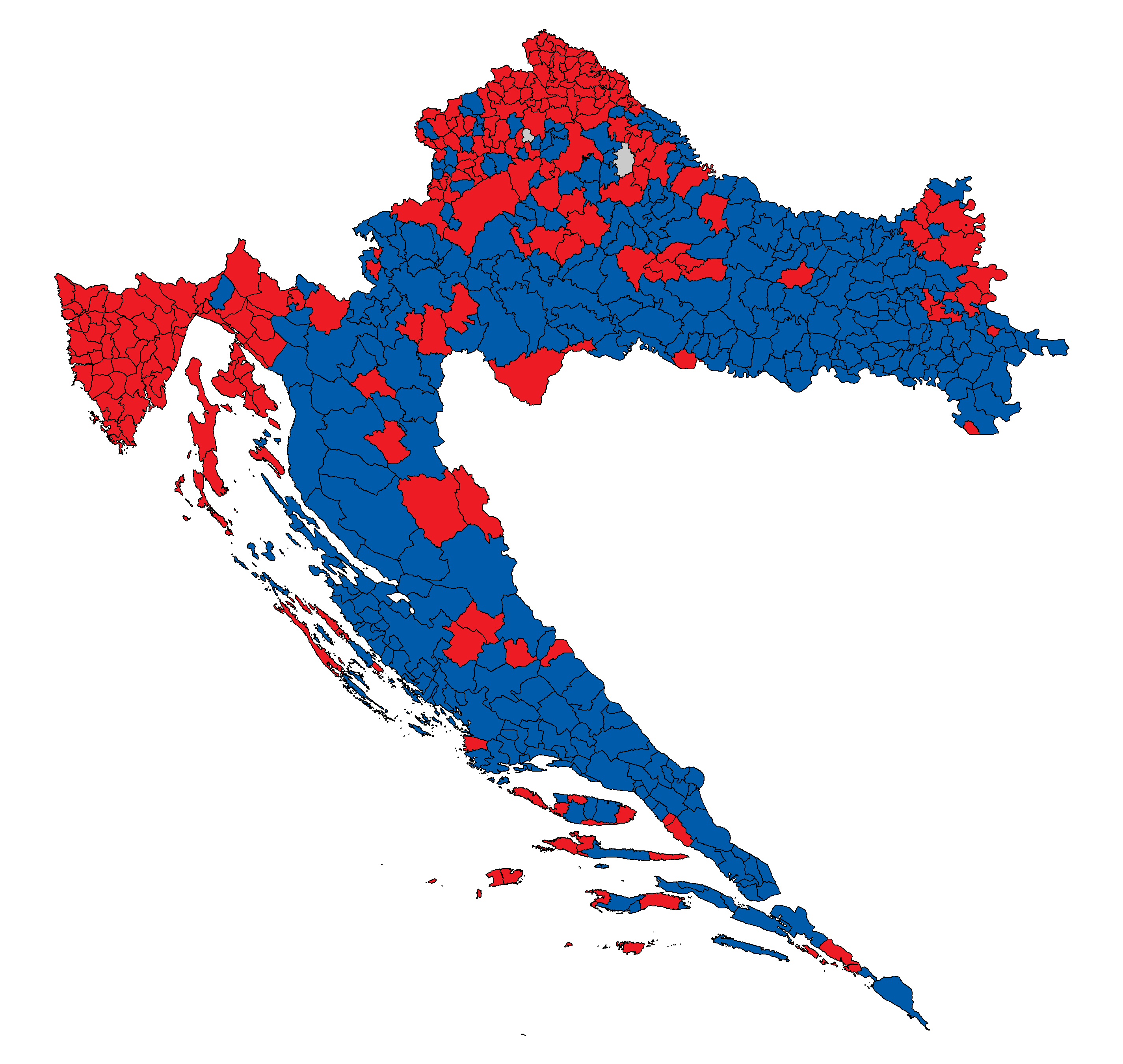 2015 election results for the President of Croatia, based on the majority of votes in the second round in each municipality of Croatia